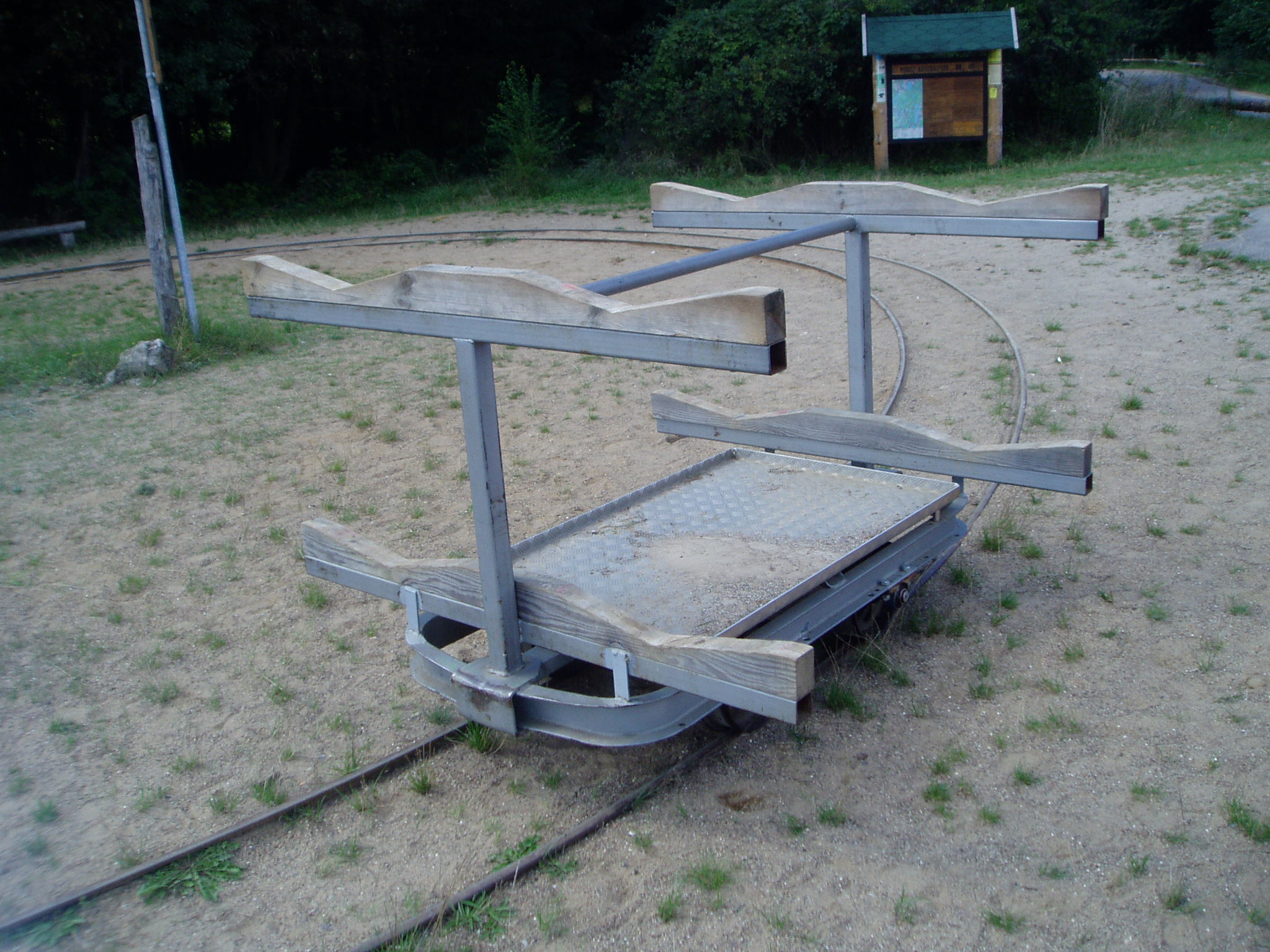 Boat Trolley